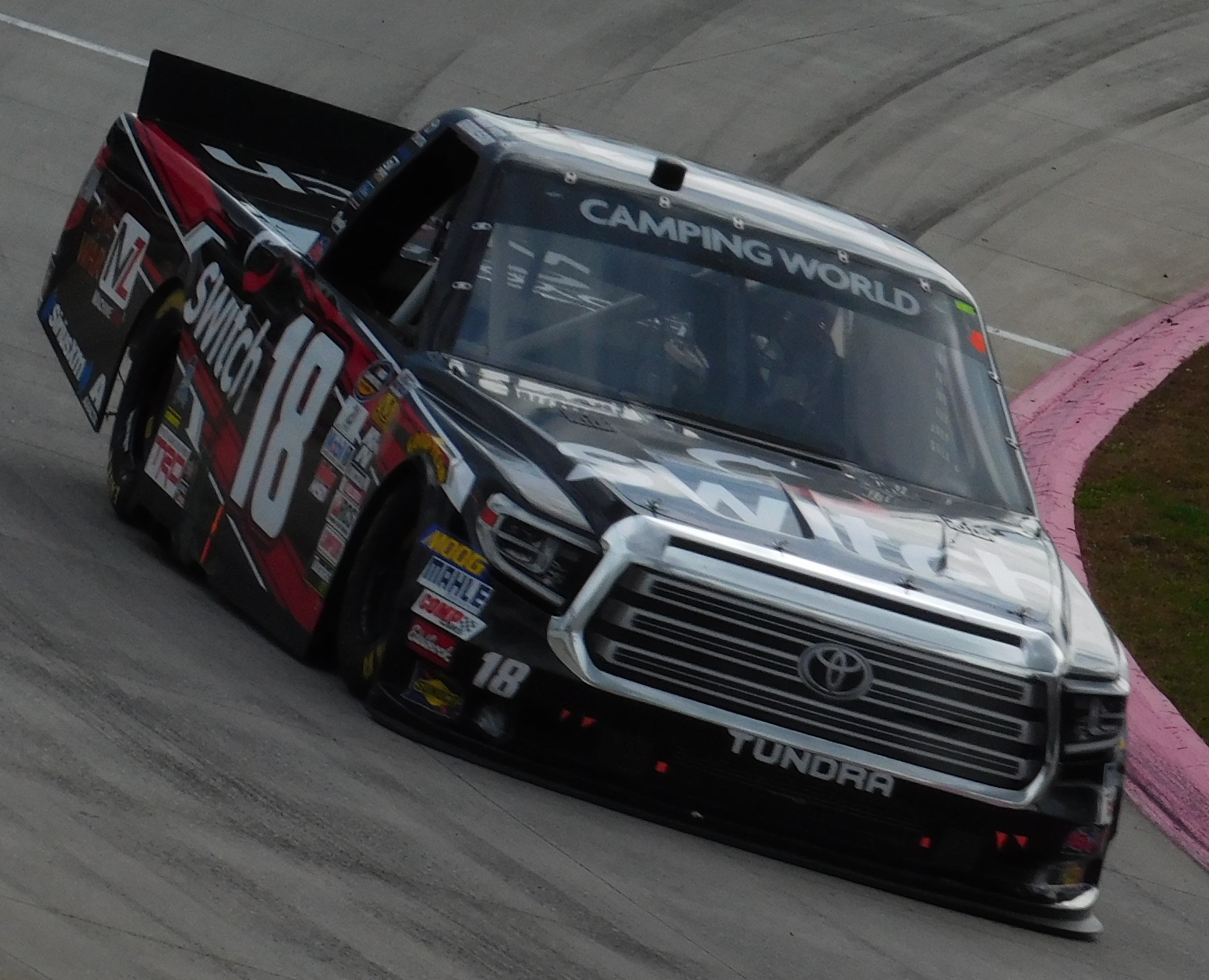 Noah Gragson - the eventual winner of the Texas Roadhouse 200 presented by Alpha Energy Solutions at Martinsville Speedway in 2017.